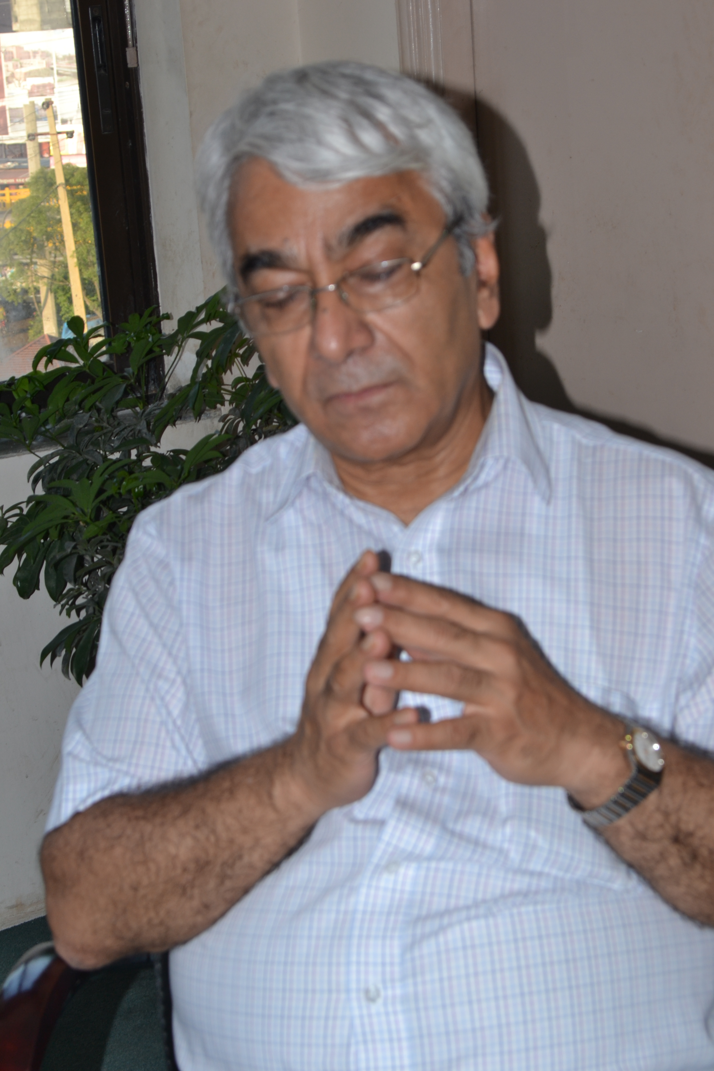 Da.Bhola Rijal is multitalent person for Nepal